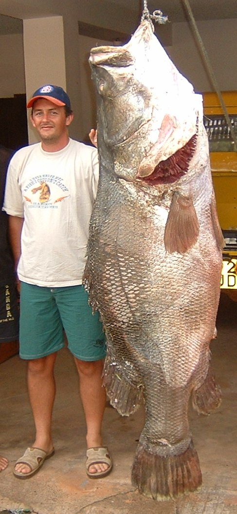 Nile perch Lates niloticus in comaprison with a man. Lake Victoria, Uganda